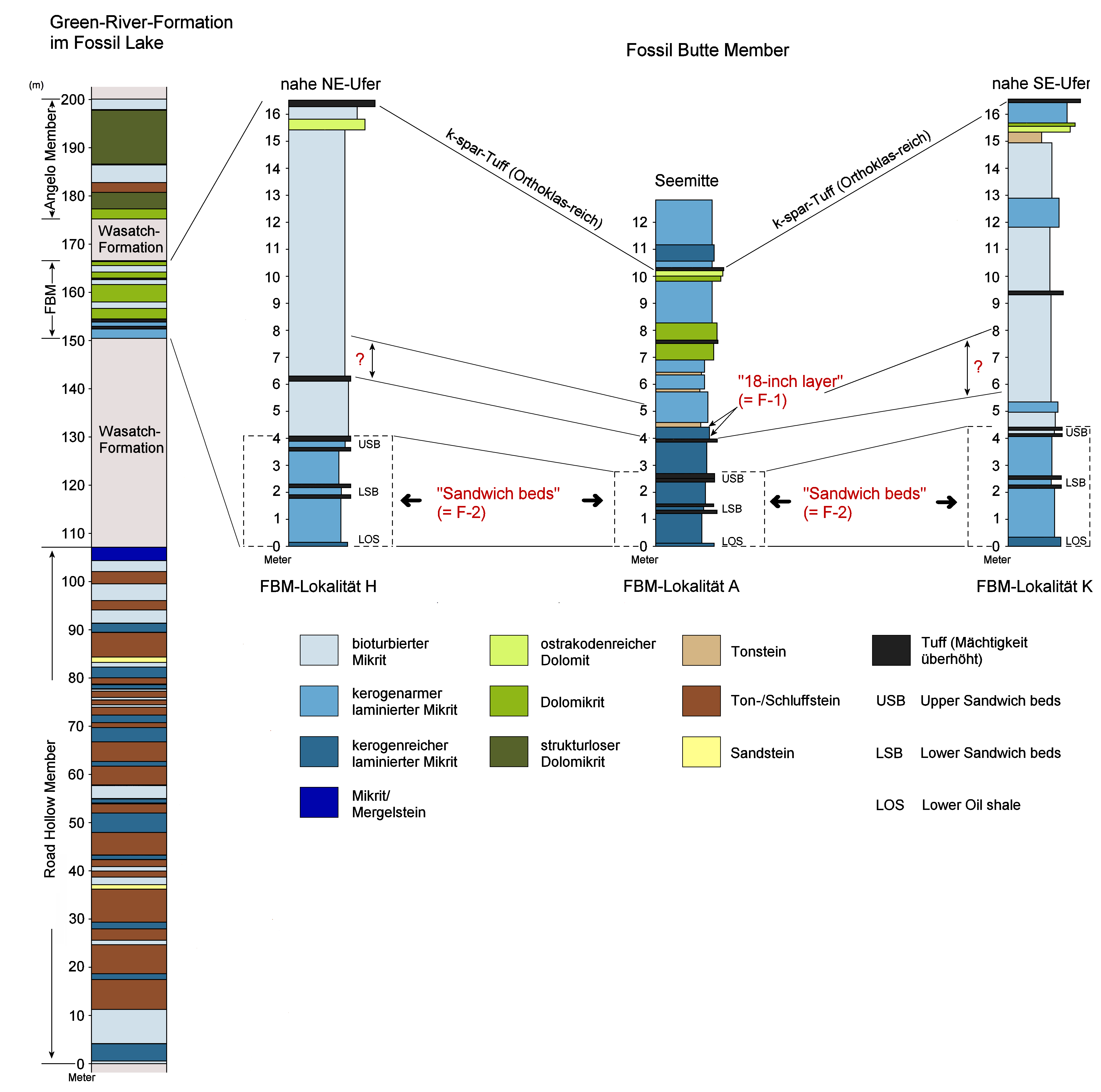 Stratigraphy of the Green River Formation in Fossil Lake and of the Fossil Butte Member, drawn after: Lance Grande: The lost world of Fossil Lake. Snapshot from deep time. University of Chicago Press, Chicago and London, 2013, pp. 1–425 (p. 4) ISBN 978-0-226-92296-6 (FBM; particuliary also used: Lance Grande and H. Paul Buchheim: Paleontological and sedimentological variation in Early Eocene Fossil Lake. Contributions to Geology, University of Wyoming 30 (1), 1994, pp. 33–56 (p. 36)) and H. Paul Buchheim, Robert A. Cushman Jr. and Roberto E. Biaggi: Stratigraphic revision of the Green River Formation in Fossil Basin, Wyoming: Overfilled to underfilled lake evolution. Rocky Mountain Geology 46 (2), 2011, pp. 165–181 (p. 168) (GRF)